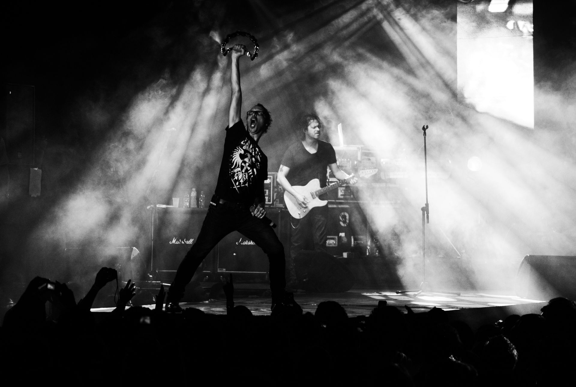 Zapato 3 - La Ultima Cruzada Tour 2012. Merida, Venezuela.